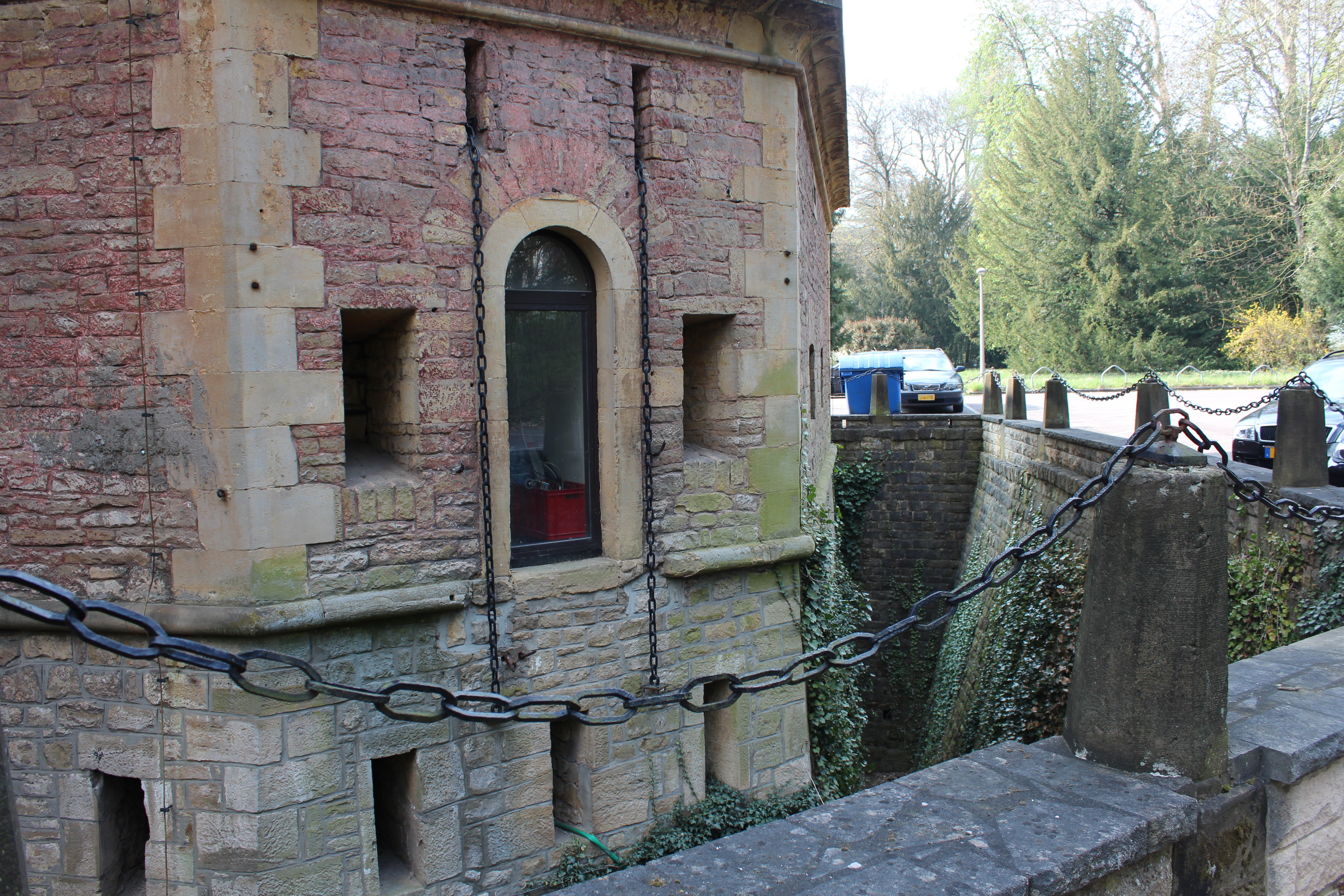 Fort Louvigny, today foundation of the tower of Villa Louvigny, Luxembourg City.